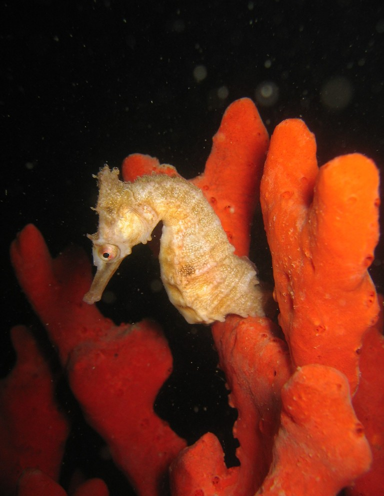 A White's Seahorse (Hippocampus whitei) anchored to a sponge. Pipeline, Port Stephens, NSW